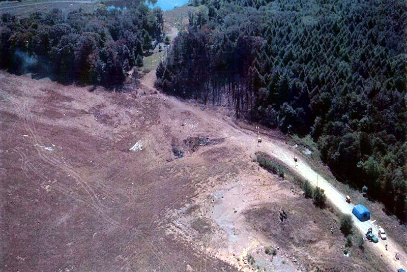 United States v. Zacarias Moussaoui Criminal No. 01-455-A Prosecution Trial Exhibits Exhibit Number P200057 Description - Photograph of the scene in Somerset County, Pennsylvania, where Flight 93 crashed; Resized and slightly retouched to improve quality